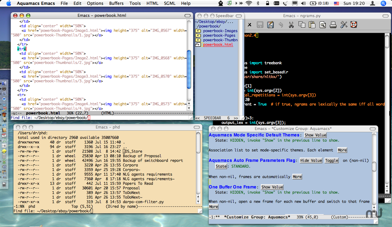 David Reitter (uploader). Hereby released under the GFDL.